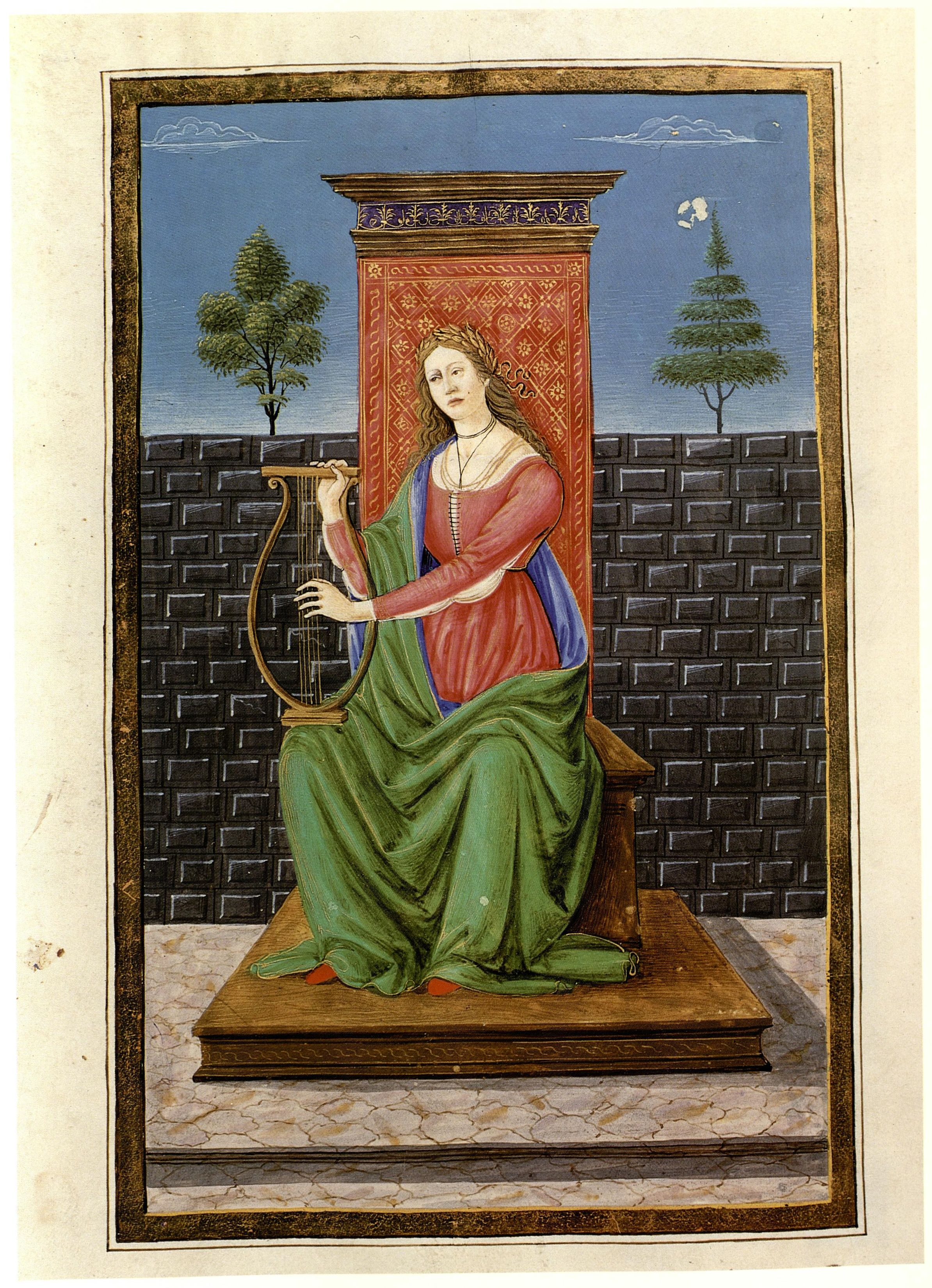 Musica, the personification of music. Miniature in a manuscript of Martianus Capella’s „De nuptiis Philologiae et Mercurii“: Venice, Biblioteca Nazionale Marciana, Lat. XIV, 35 (colloc. 4054), fol. 149v.